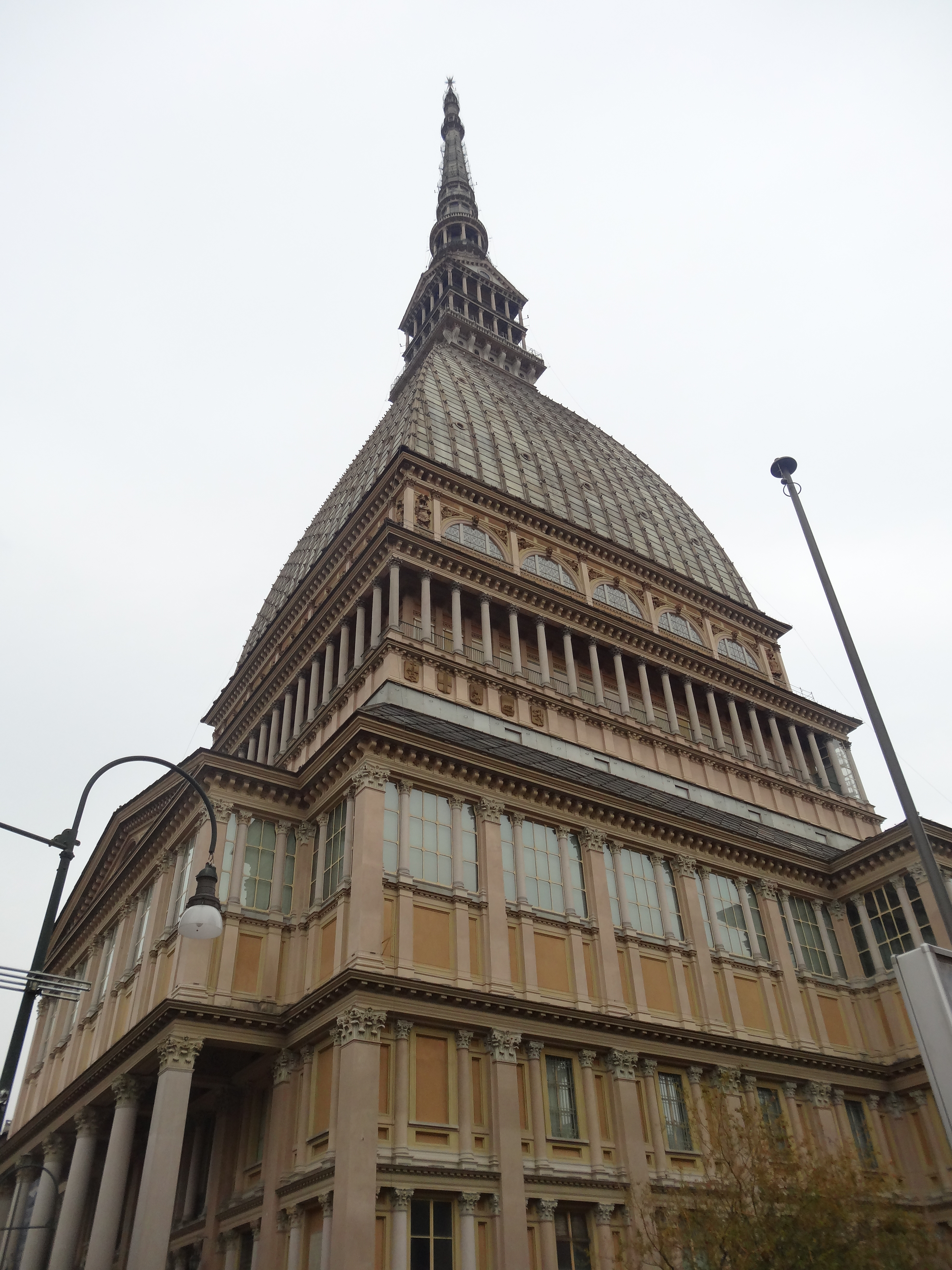 Torino